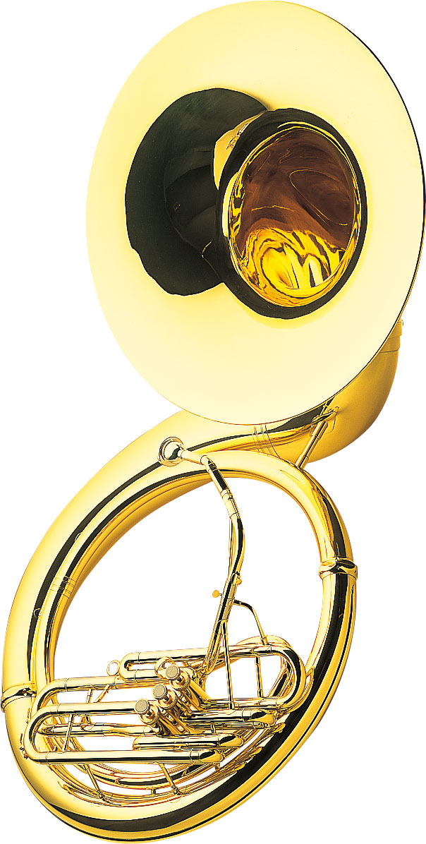 Yamaha sousaphone, model YSH-411. In Bb, yellow brass, three pistons.